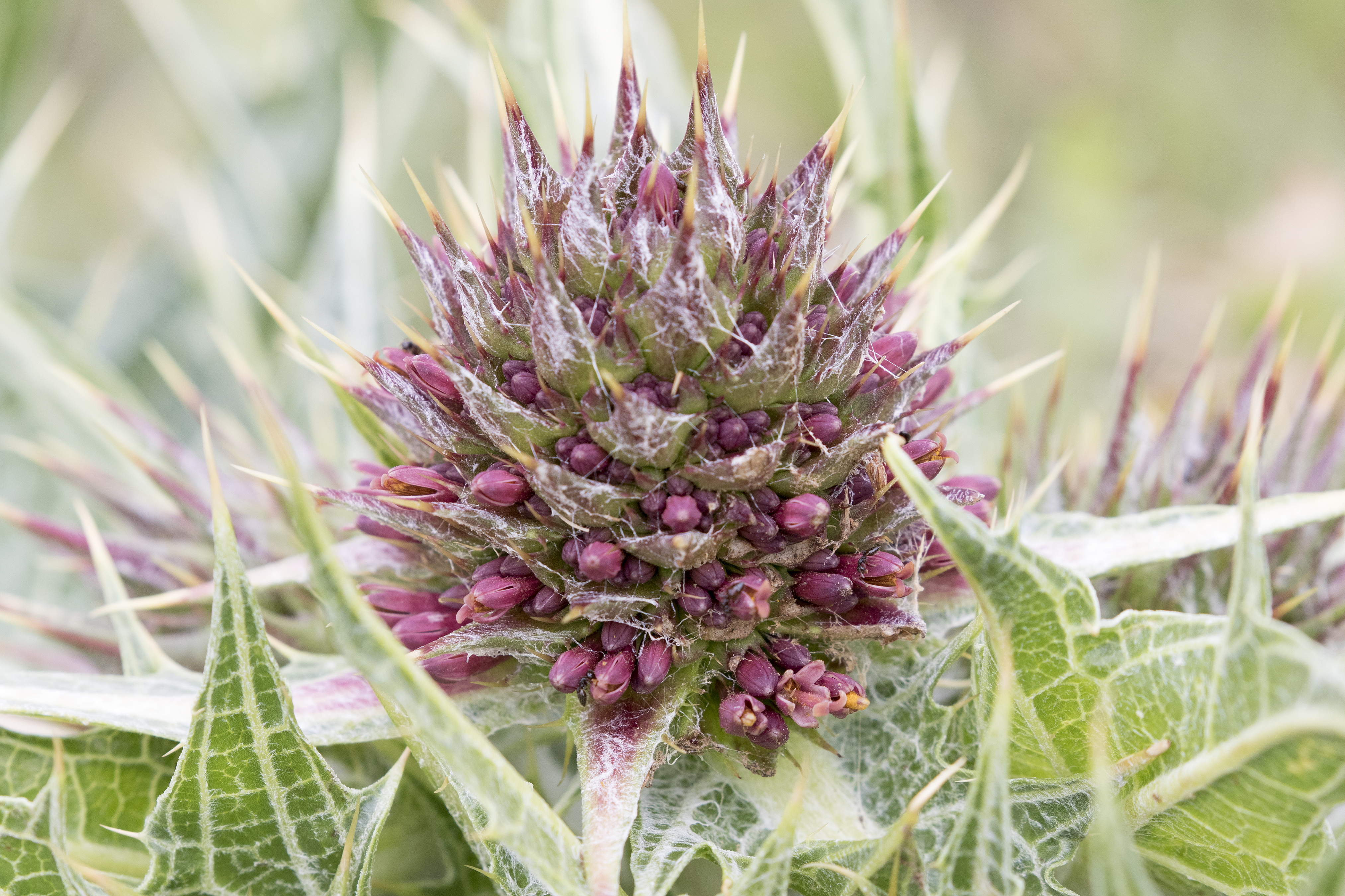 Gundelia (Gundelia tournefortii). Karasakal Dağı, Güzelim - Tufanbeyli, Adana, Turkey.